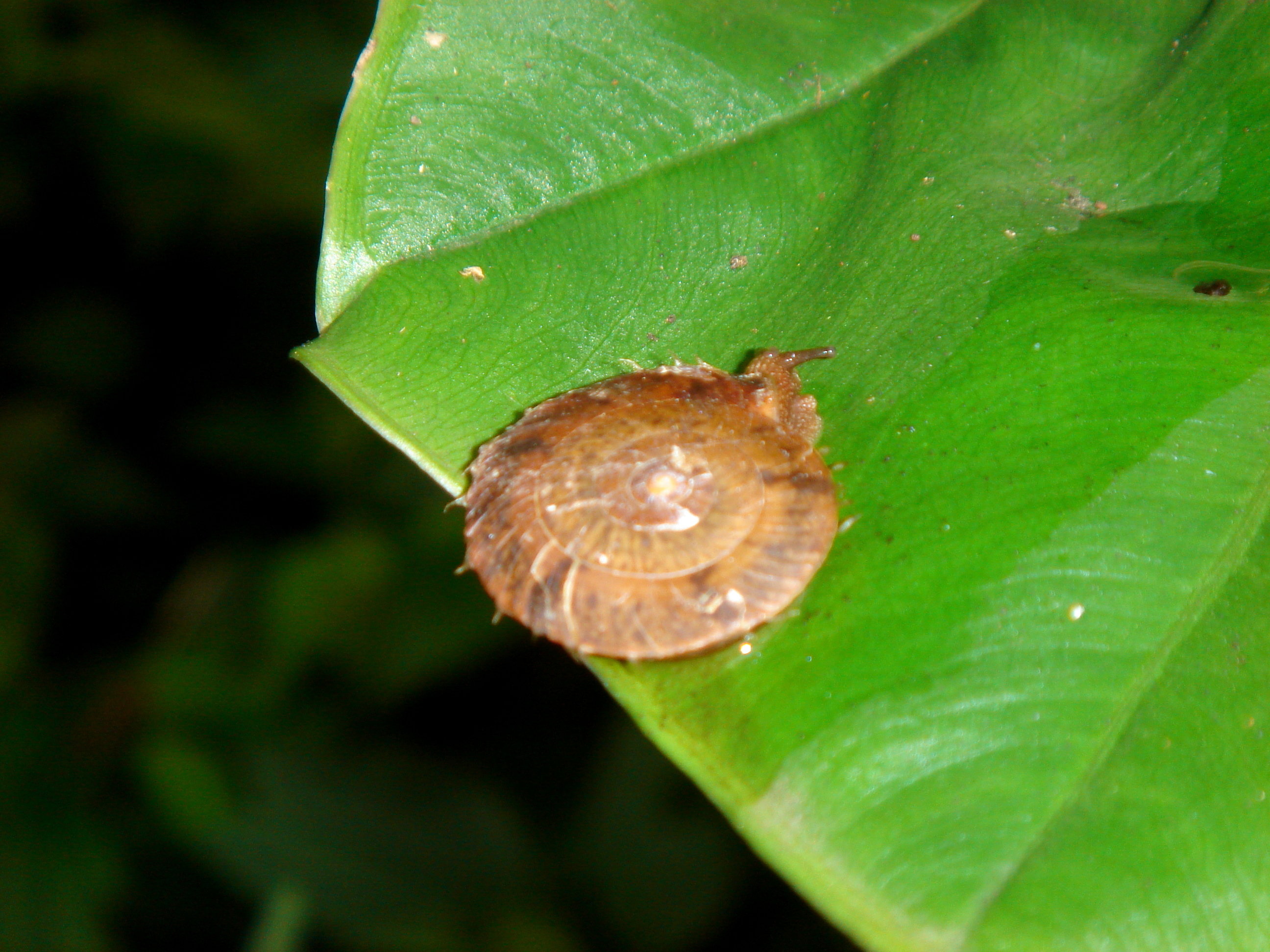 Aegista impexa from Alishan National Scenic Area, Chiayi County, Taiwan